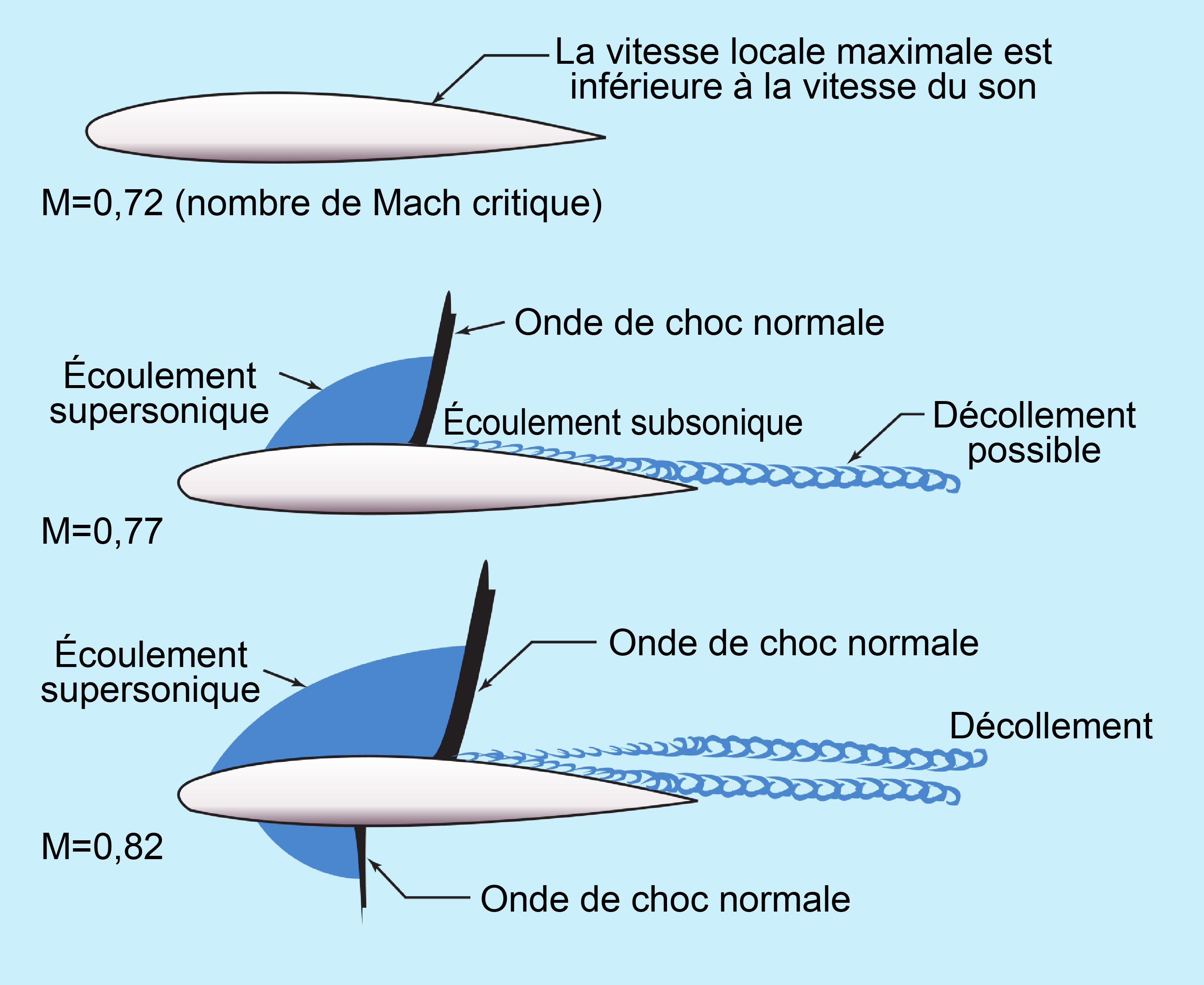 Bad translation is corrected.